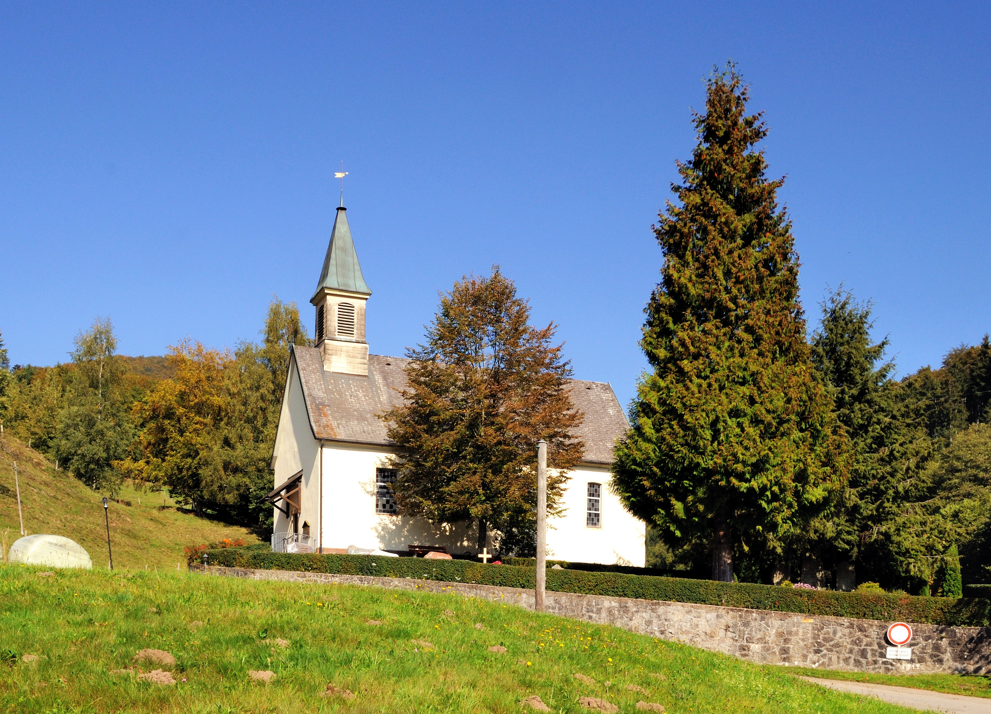 Steinen-Endenburg: Protestant Church